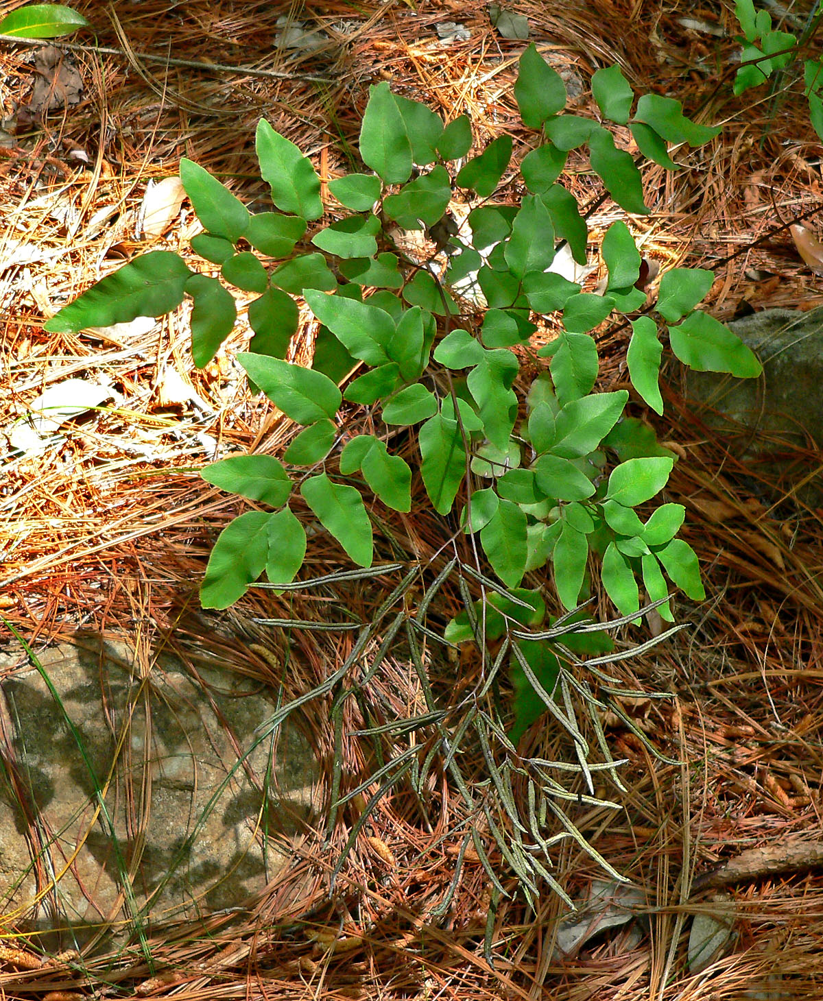 Llavea cordifolia at the University of California Botanical Garden, Berkeley, California